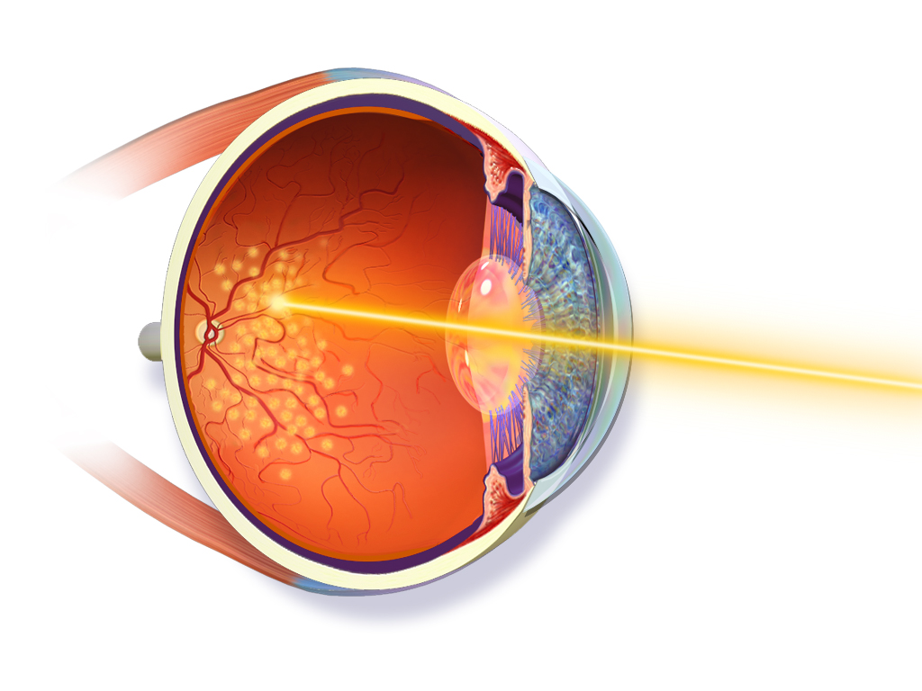 A medical illustration depicting a photocoagulation surgery.